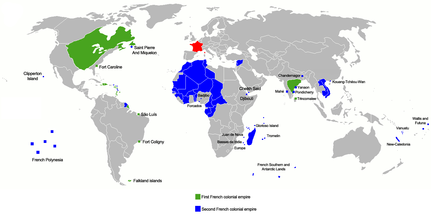 Green: 1st colonial empire: 1546 to 1763 Blue: 2nd colonial empire: 1763 to 1962